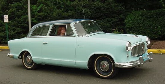 1959 Rambler American 2-door compact sedan by American Motors Corporation (AMC) -- the first generation design. Painted in optional factory two-tone blue.